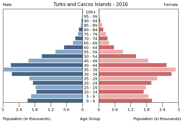 The population pyramid of Turks and Caicos Islands illustrates the age and sex structure of population and may provide insights about political and social stability, as well as economic development. The population is distributed along the horizontal axis, with males shown on the left and females on the right. The male and female populations are broken down into 5-year age groups represented as horizontal bars along the vertical axis, with the youngest age groups at the bottom and the oldest at the top. The shape of the population pyramid gradually evolves over time based on fertility, mortality, and international migration trends.